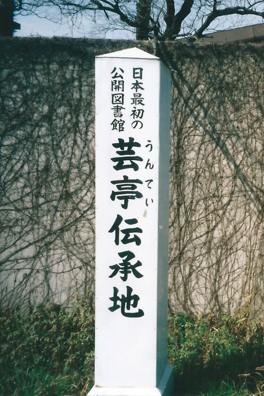 to remember the first Japanese library "Untei" open to the public about A.D. 770 (Hokkeji-cho, Nara-City, Nara Prefecture)